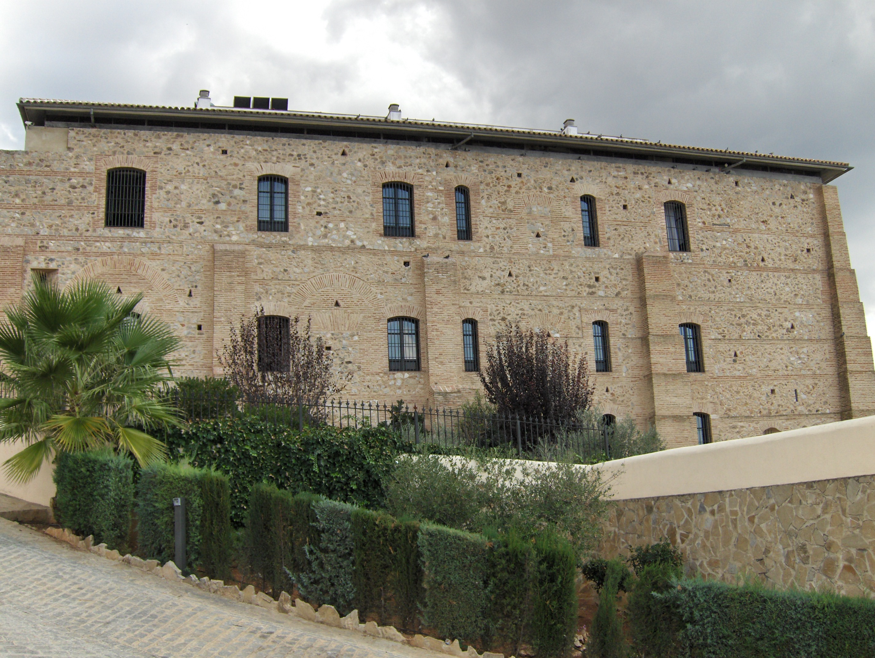 Rear façade of the Convent of Santo Domingo, Archidona, Spain.